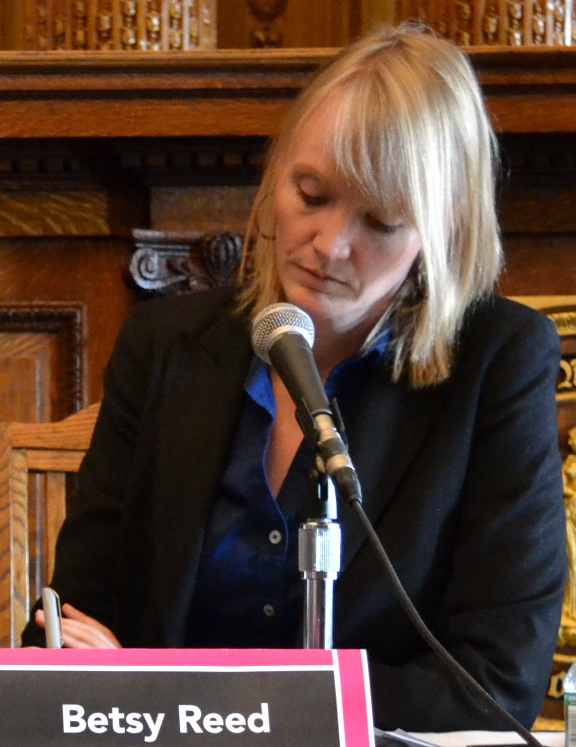 Extreme Weather, Scarce Resources and Climate Change Brooklyn Book Festival